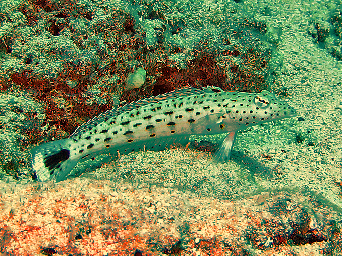 Parapercis hexophtalma. Sharm el Sheik, Egypt